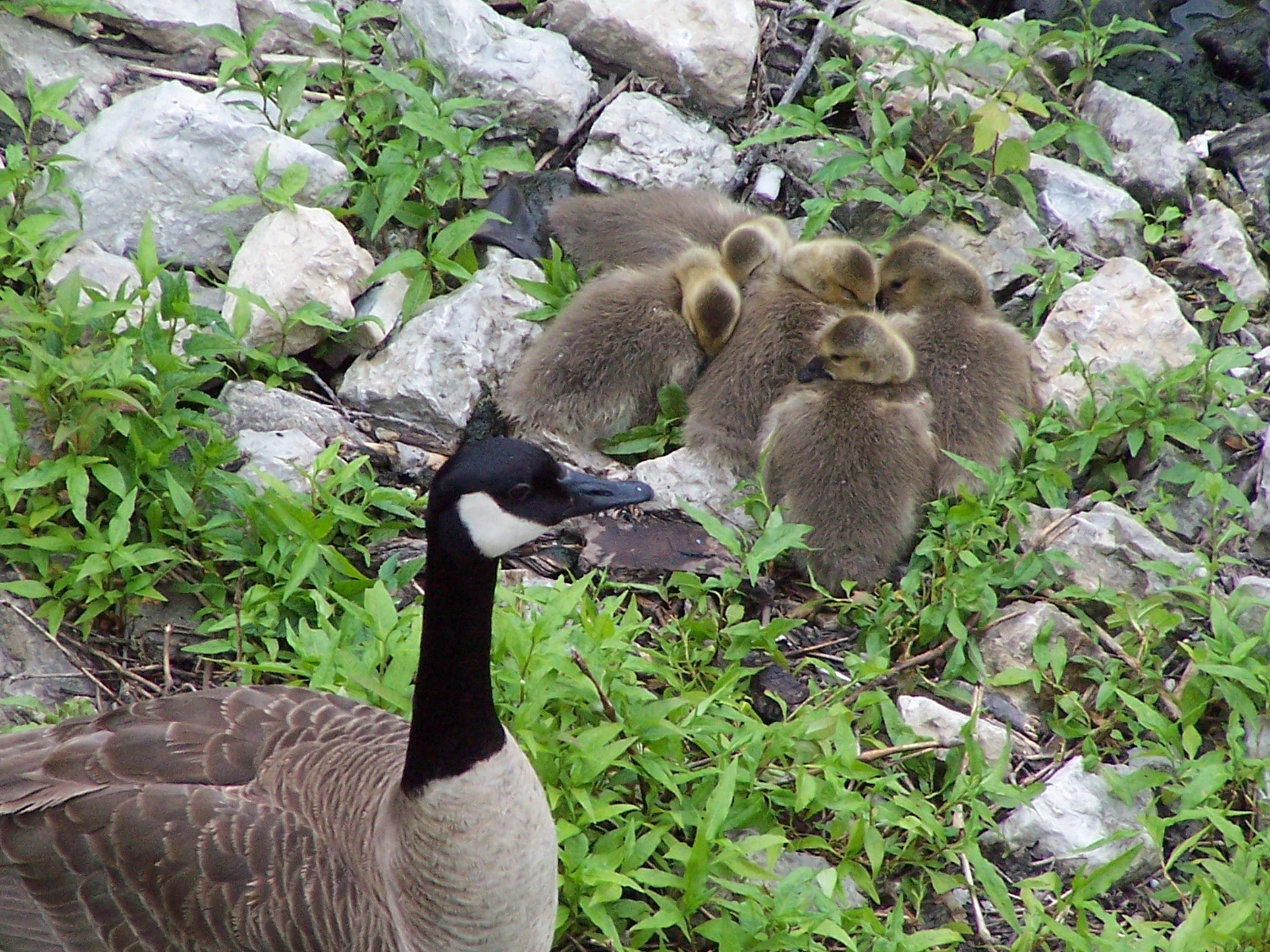 Baby geese in a nest on the bank of the Chicago River. Photo taken at the southeast corner of the Addison Street bridge on June 6, 2005.